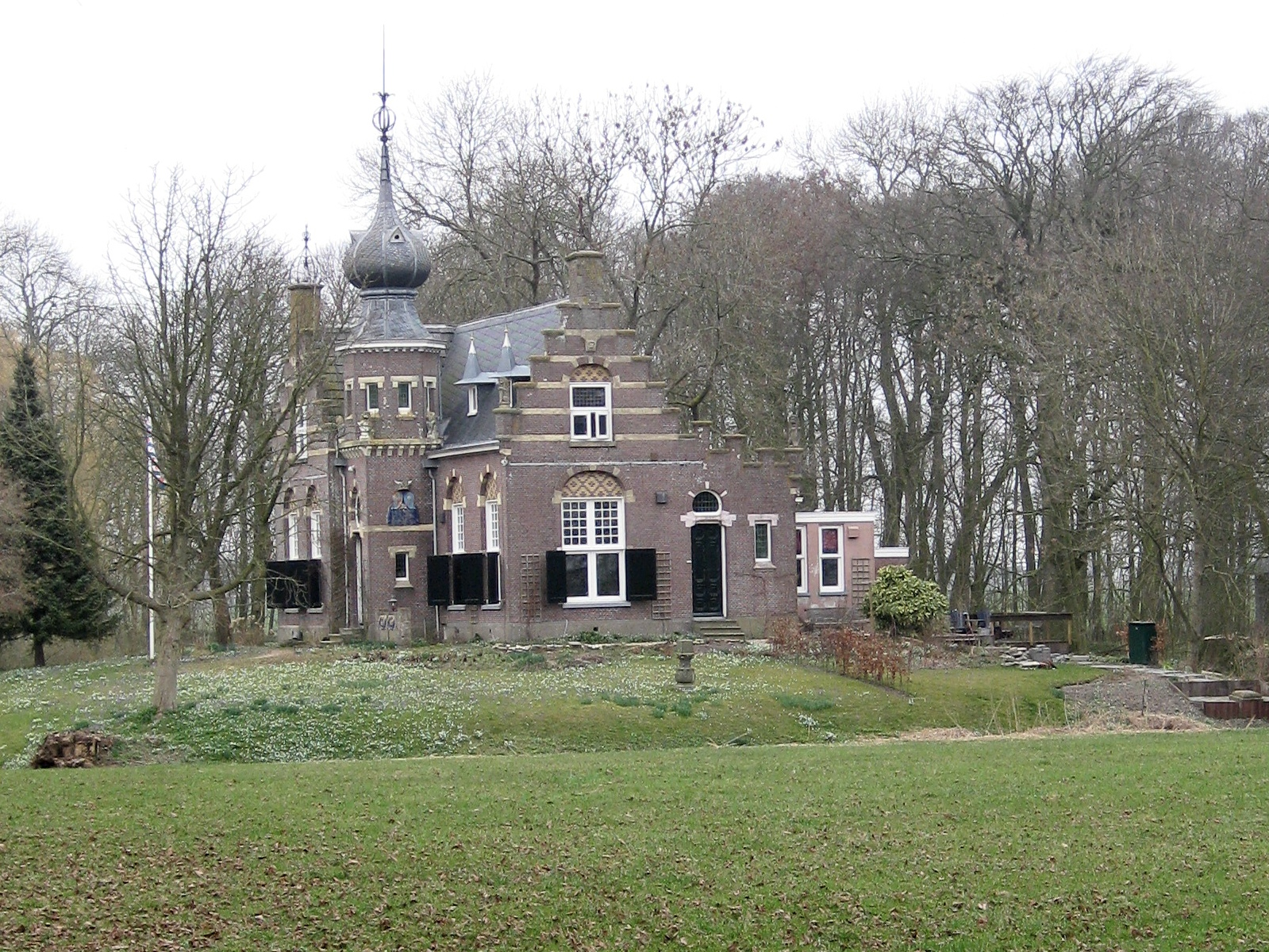 Martenastate. Cornjum (Friesland, The Netherlands)